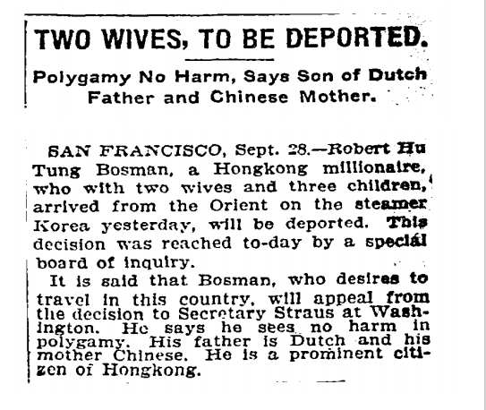 Clipping from New York Times dated 29 September 1908 reporting refusal of entry to Robert Ho Tung Bosman